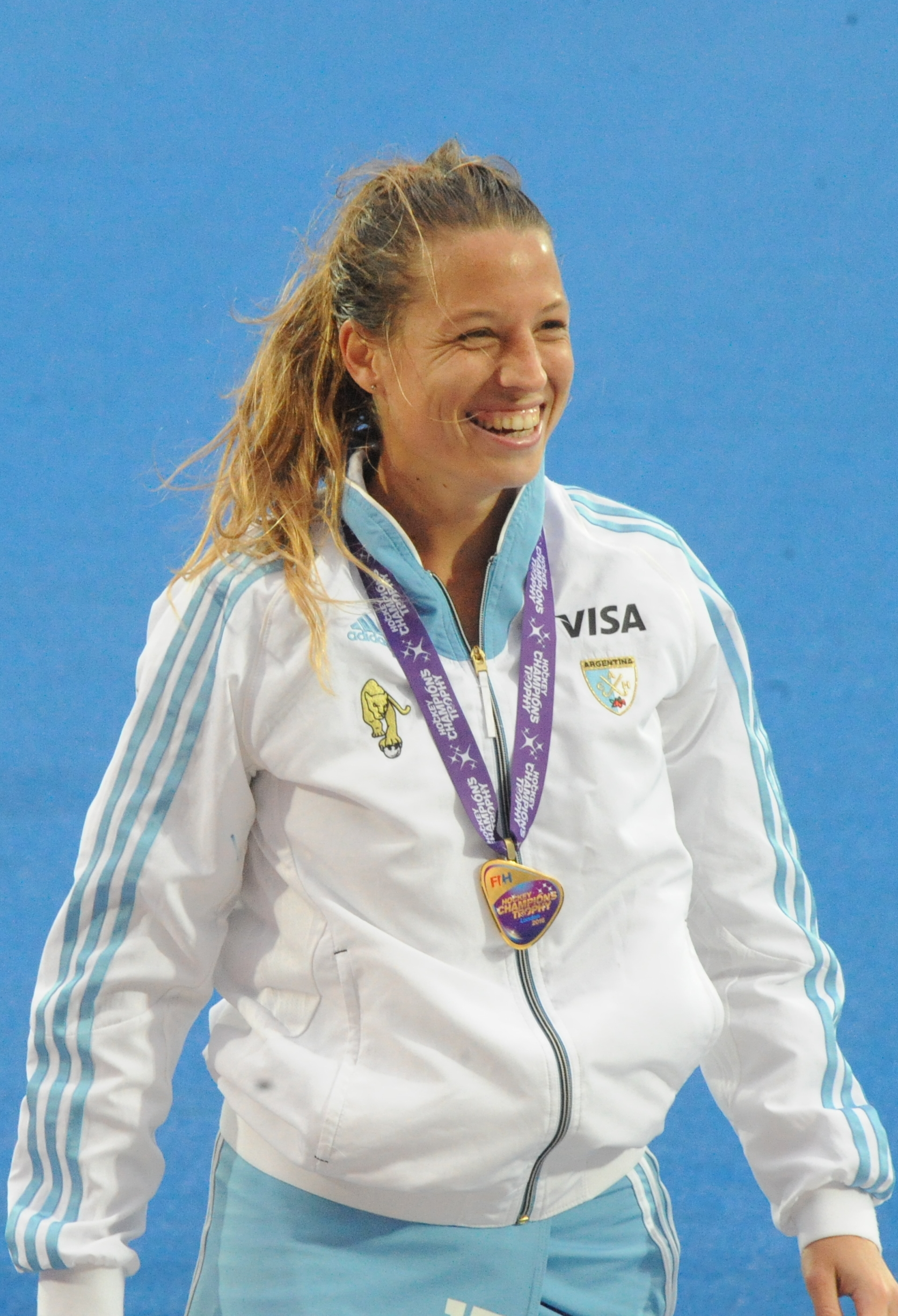 Argentina 2016 CT Champions